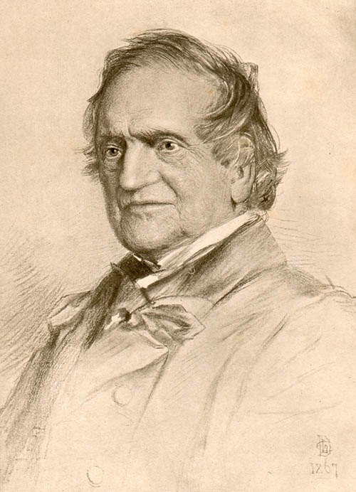 Adam Sedgewick (1785-1873), British geologist, at the age of 82